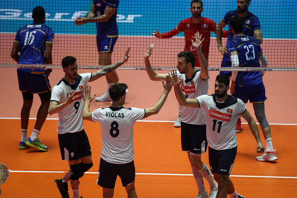 Portugal National Volleyball Team in a match against France National Volleyball Team during 2019 FIVB Volleyball Men's Nations League in Ardabil, Iran.